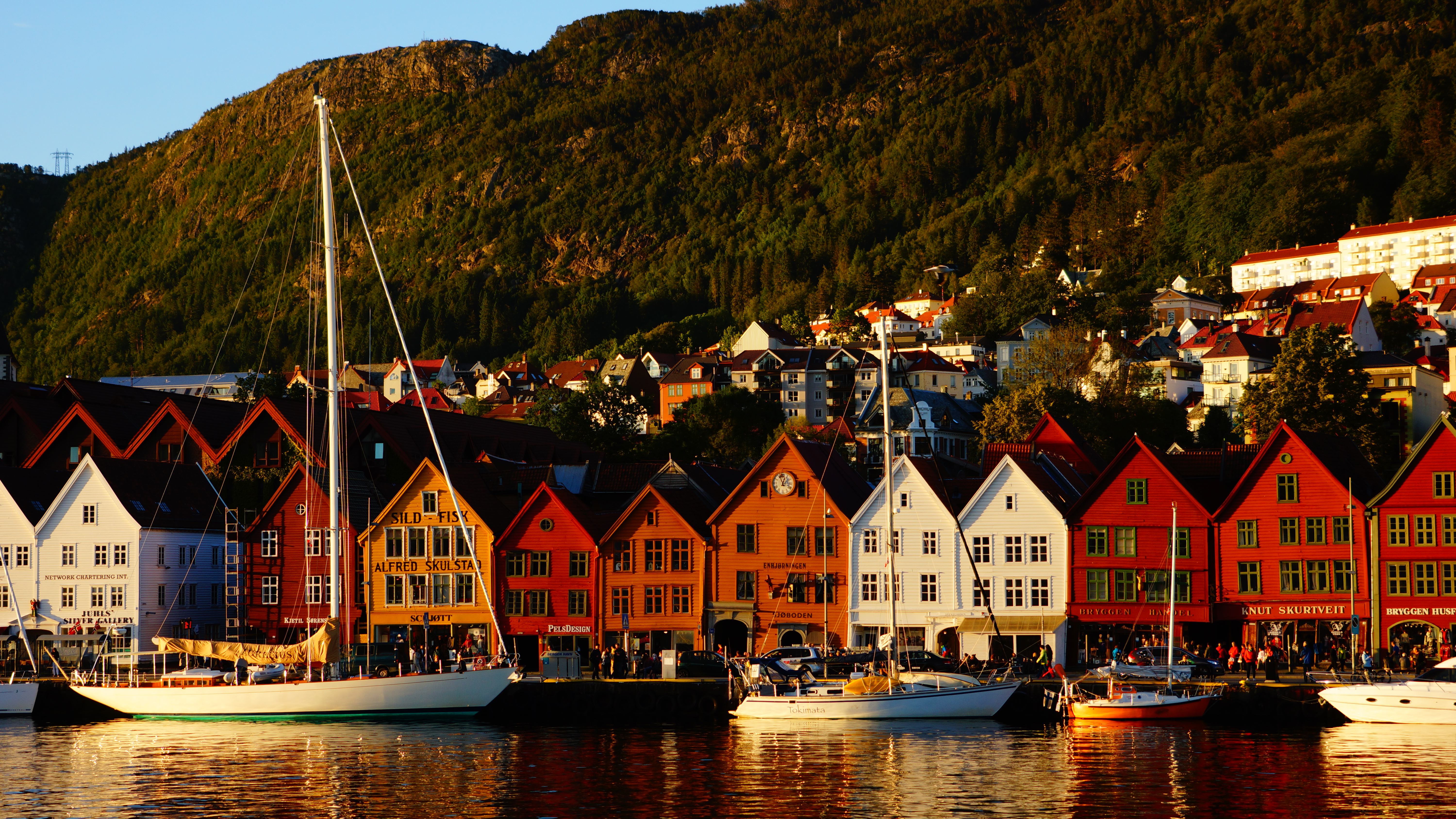 Bryggen (Bergen) viewed from the waterfront